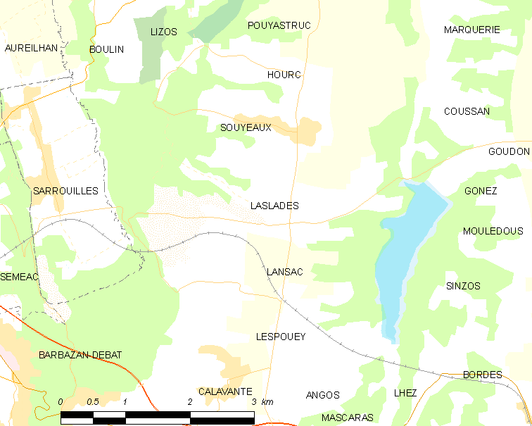 Map of French municipality